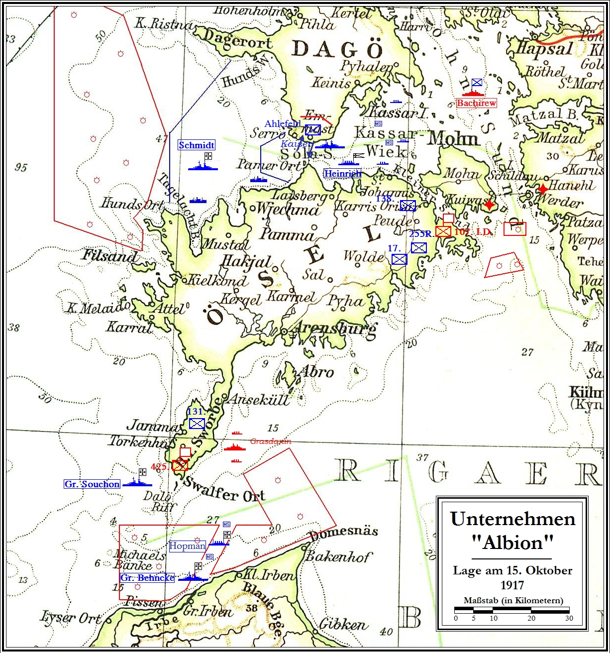 Dislocation of German and Russian units during the invasion of the Baltic Islands, October 15, 1917. Map is based on Andrees Allgemeiner Handatlas, 4. Auflage, Gotha 1899.